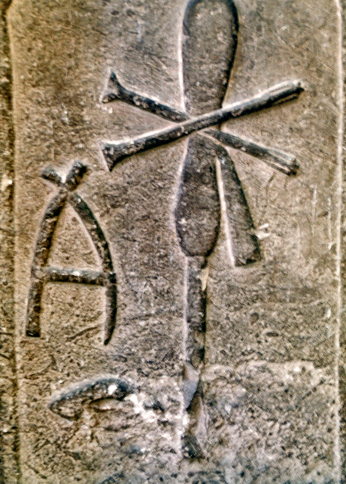 Detail of one of the two stelae erected in front of the tomb of Queen Mer-Neith at Abydos, Umm el Qaab, tomb Y (Tomb of Queen Mer-Neith). Now in the Egyptian Museum, JE 34450. bibliography: Petrie, W.M.Flinders. 1900. The royal tombs of the first dynasty. Part I, p. IV, 7-9, V, X 11-14; XI 3-11.